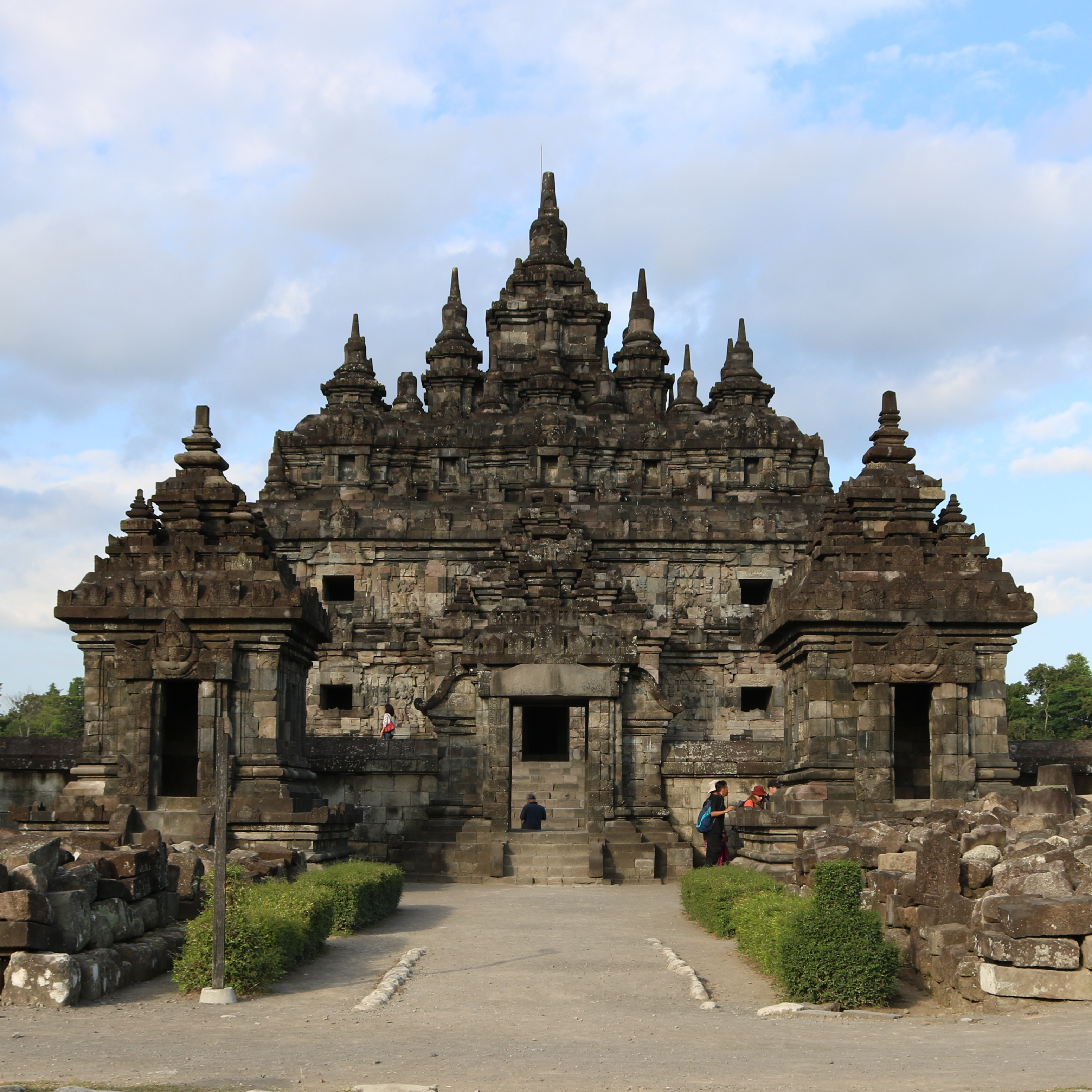 Candi Plaosan Lor (North Plaosan Temple) from Klaten, Central Java, Indonesia